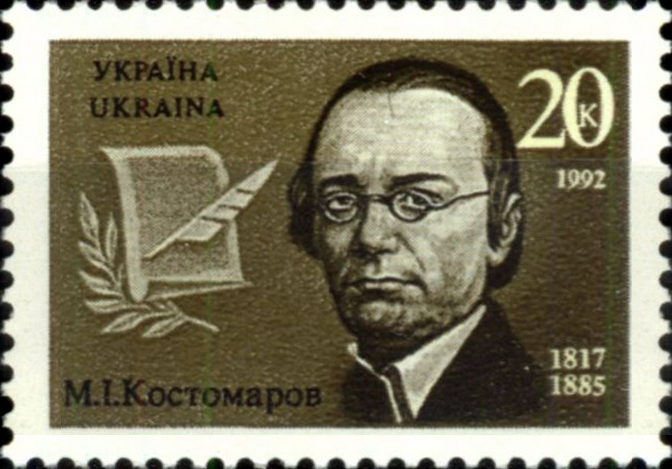 N. Kostomarov, Stamp of Ukraine